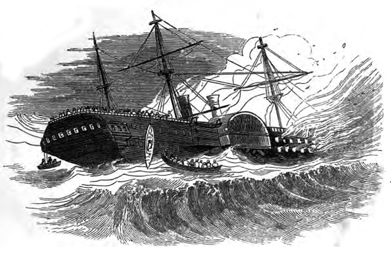 RMS Amazon (1851) was a wooden paddle wheel mail steamer of the Royal Mail Steam Packet Company.